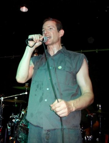 Jeff Pezzati performing with Naked Raygun at the Cobra Lounge in Chicago on August 6th, 2011